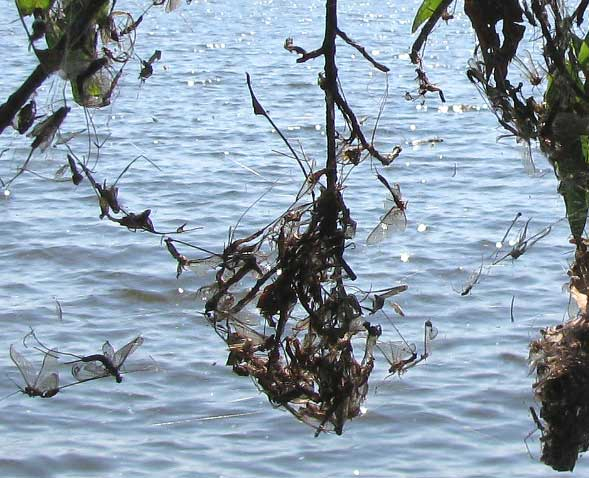 When a large number of mayflies emerge from the water, a lot end up caught in spider webs.